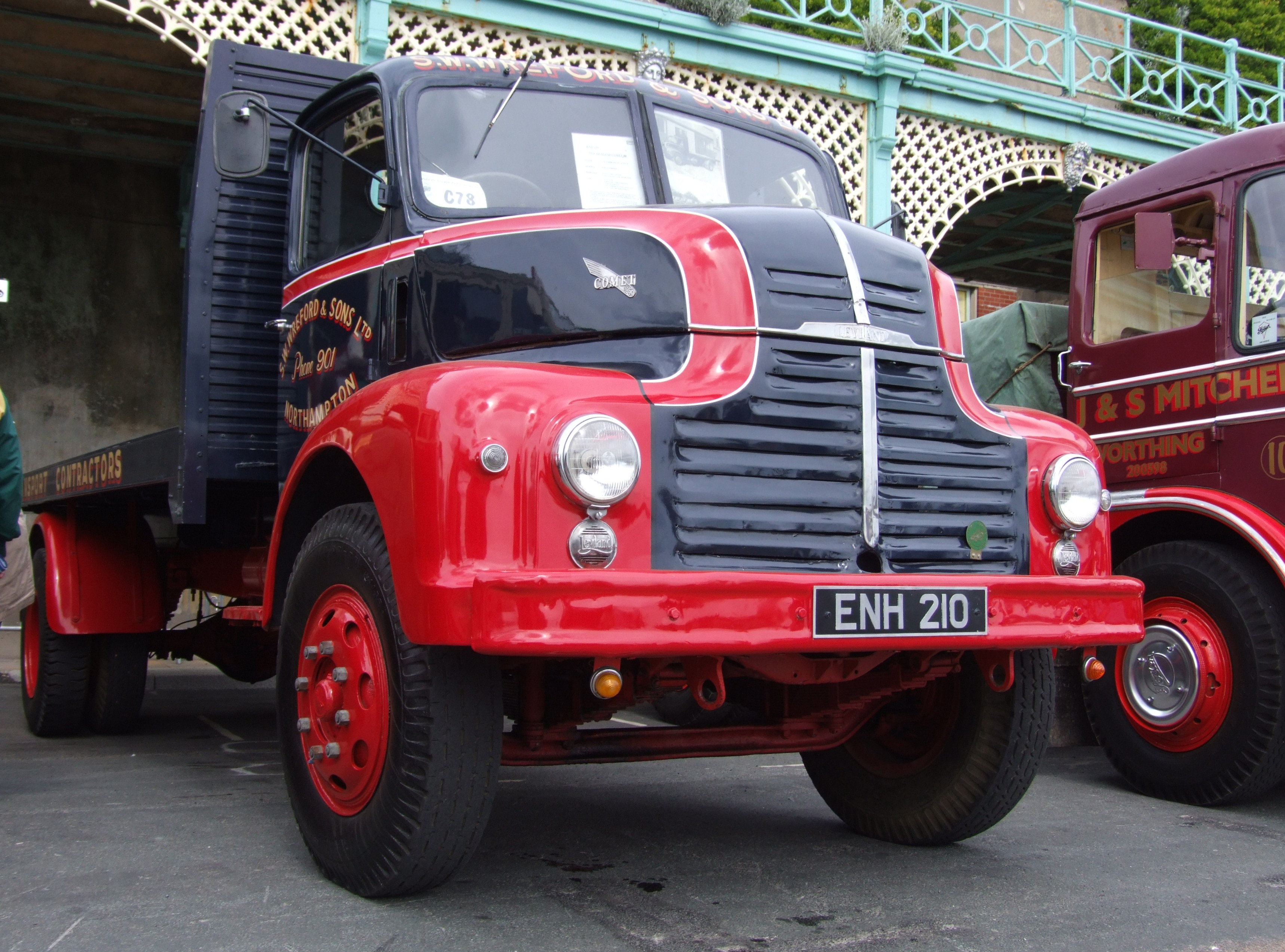 Namely a Leyland Comet 90 flatbed Lorry of 1954 vintage.